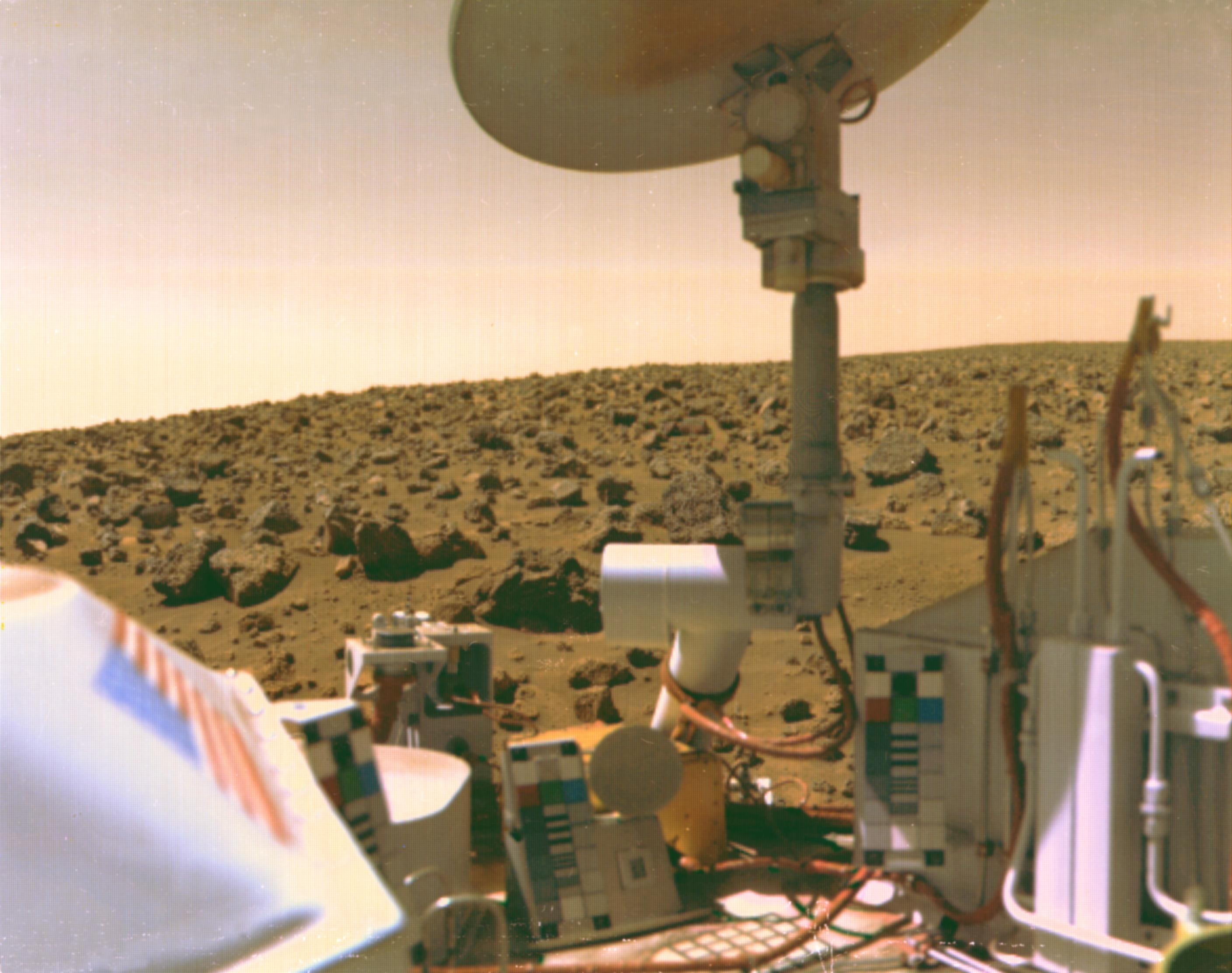 A boulder-strewn field of red rocks stretches across the horizon in this self-portrait of Viking 2 on Mars' Utopian Plain. Fine particles of red dust have settled on spacecraft's surfaces. The same dust is responsible for Mars' salmon-colored sky as the particles hang, suspended in the atmosphere. Color calibration charts for the cameras are mounted at three locations on the spacecraft. The circular structure atop the craft is the high-gain antenna, which is pointed toward Earth. Viking 2 landed Sept. 3,1976, some 4,600 miles from the twin Viking 1 craft, which touched down on July 20.